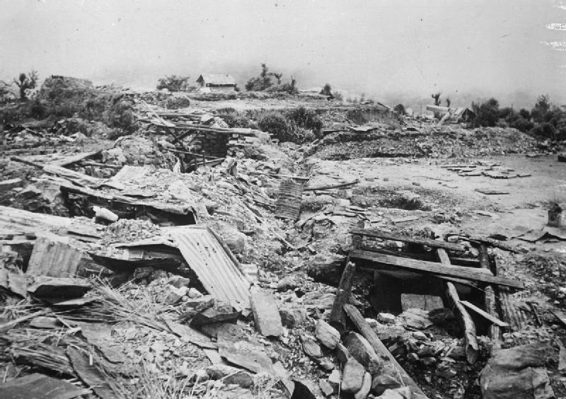 The War in the Far East- the Burma Campaign 1941-1945 The Battle of Imphal-Kohima March - July 1944: Scene of devastation at Naga village near Kohima taken after fierce resistance from the Japanese, by the 7th Indian Division.